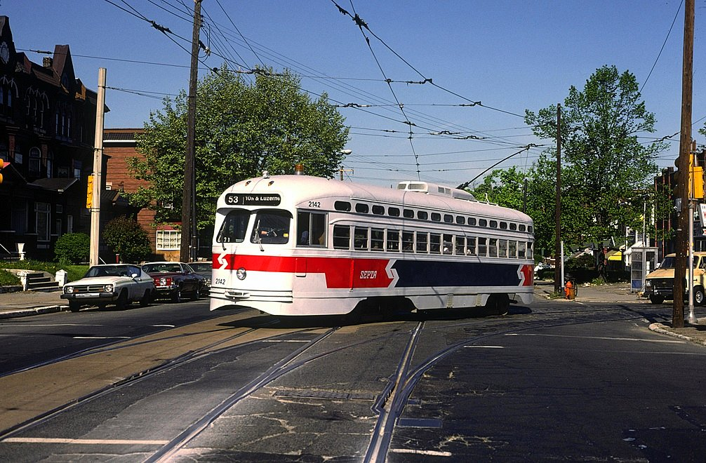 Turning from Pulaski onto Erie Ave. April 1985